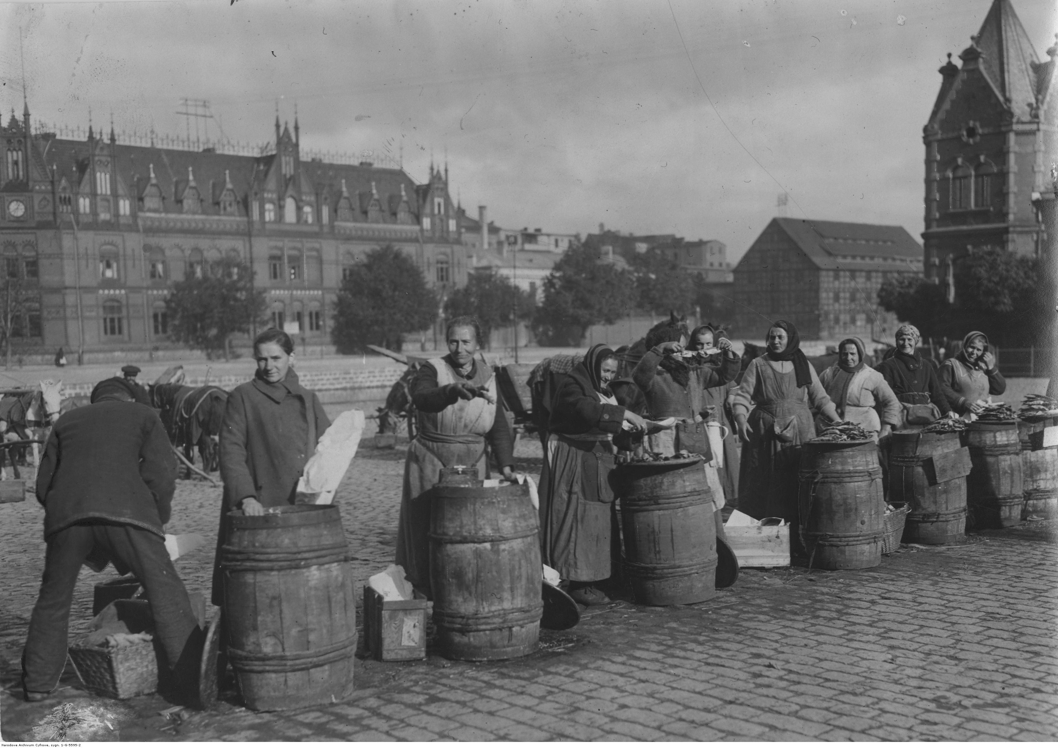 Street vendors selling herring in Bydgoszcz (November 1925)